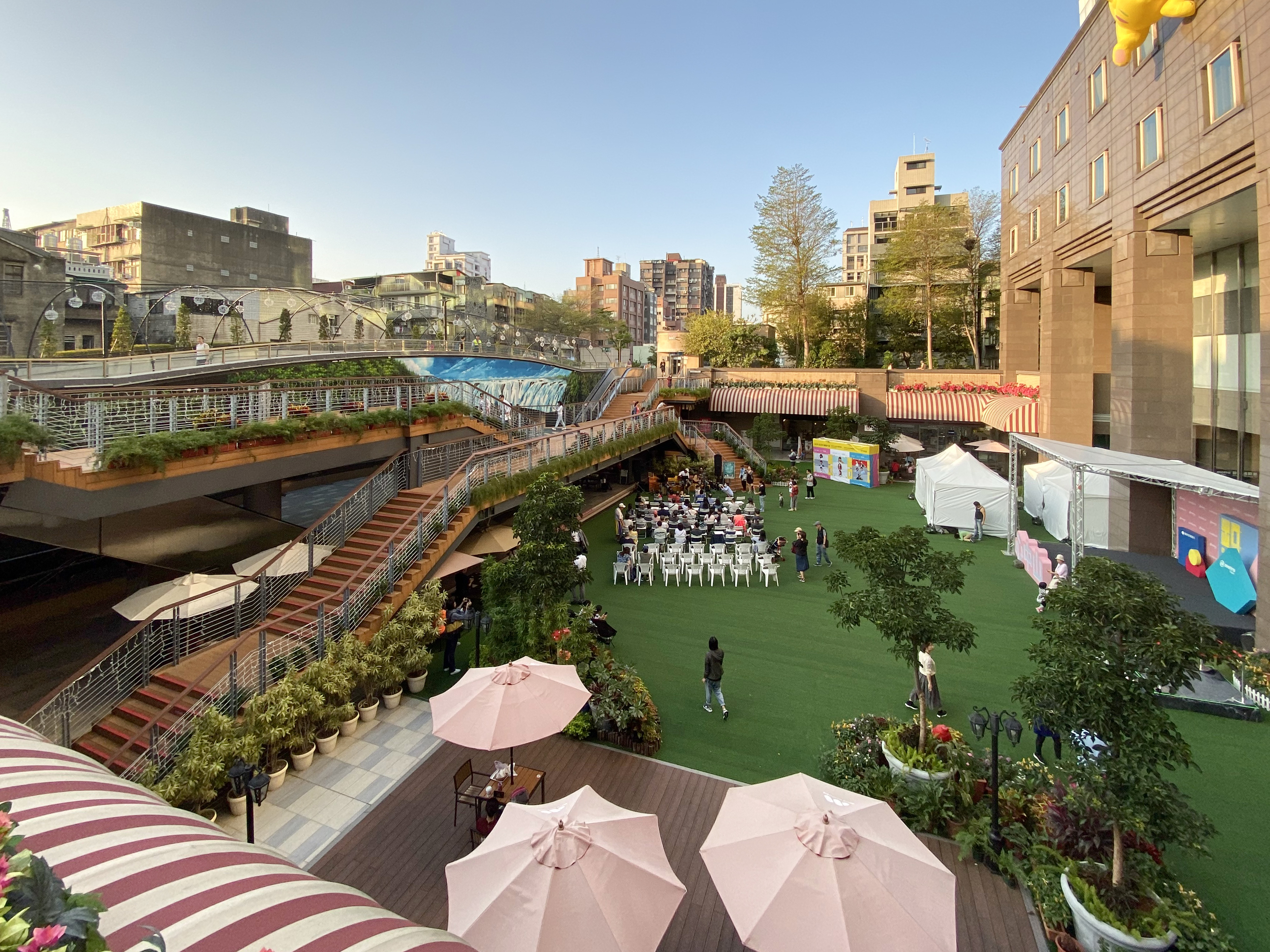 Garden Area, Jazz Square, Zhongshan Metro Mall in front of the main entrance of Rapid Transit Administration Building.